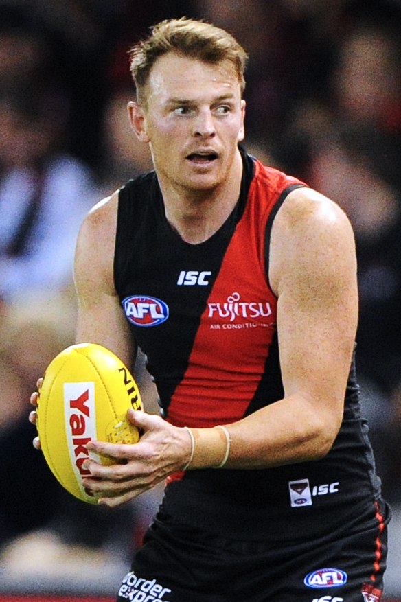 Brendon Goddard of Essendon during the 2018 AFL round 6 match between Essendon and Melbourne at Etihad Stadium on Sunday, 29 April 2018 in Melbourne, Victoria.